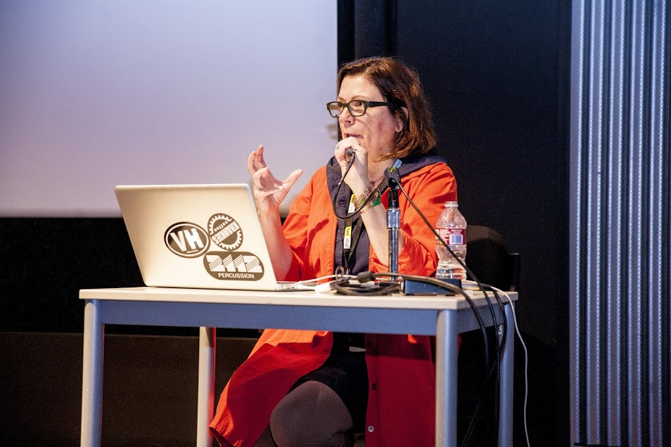 Denise Gonzales Crisp, professor of graphic design at North Carolina State University College of Design at Typo San Francisco 2014, photo by Amber Gregory